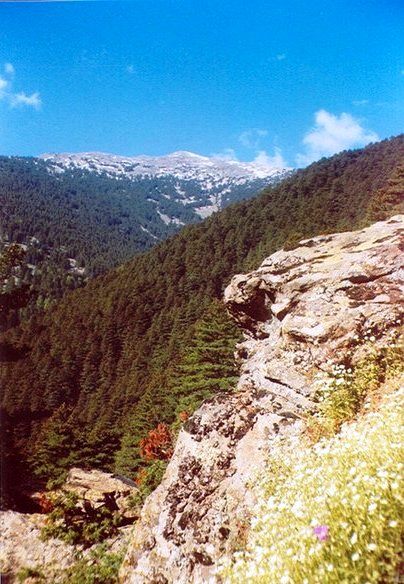 Mount Pelister (2601 m a.s.l.) in Baba Mountain, R.o.Macedonia Szczyt Pelister w górach Baba, Macedonia